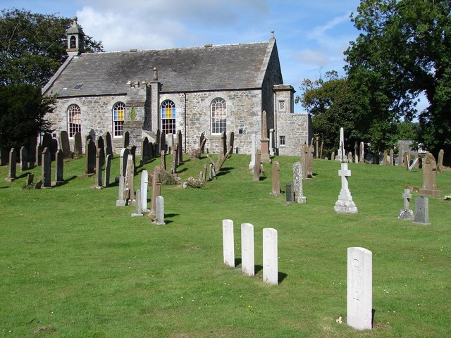 Mochrum Church & Churchyard Mochrum Parish Church (1794 & 1876) is a T-plan church and contains the original carved oak pulpit. The churchyard contains 10 war graves of which 4 male and 1 female are unknown.